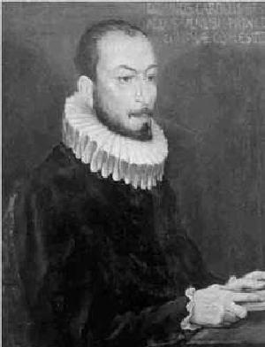 Portrait of Carlo Gesualdo 1566-1613